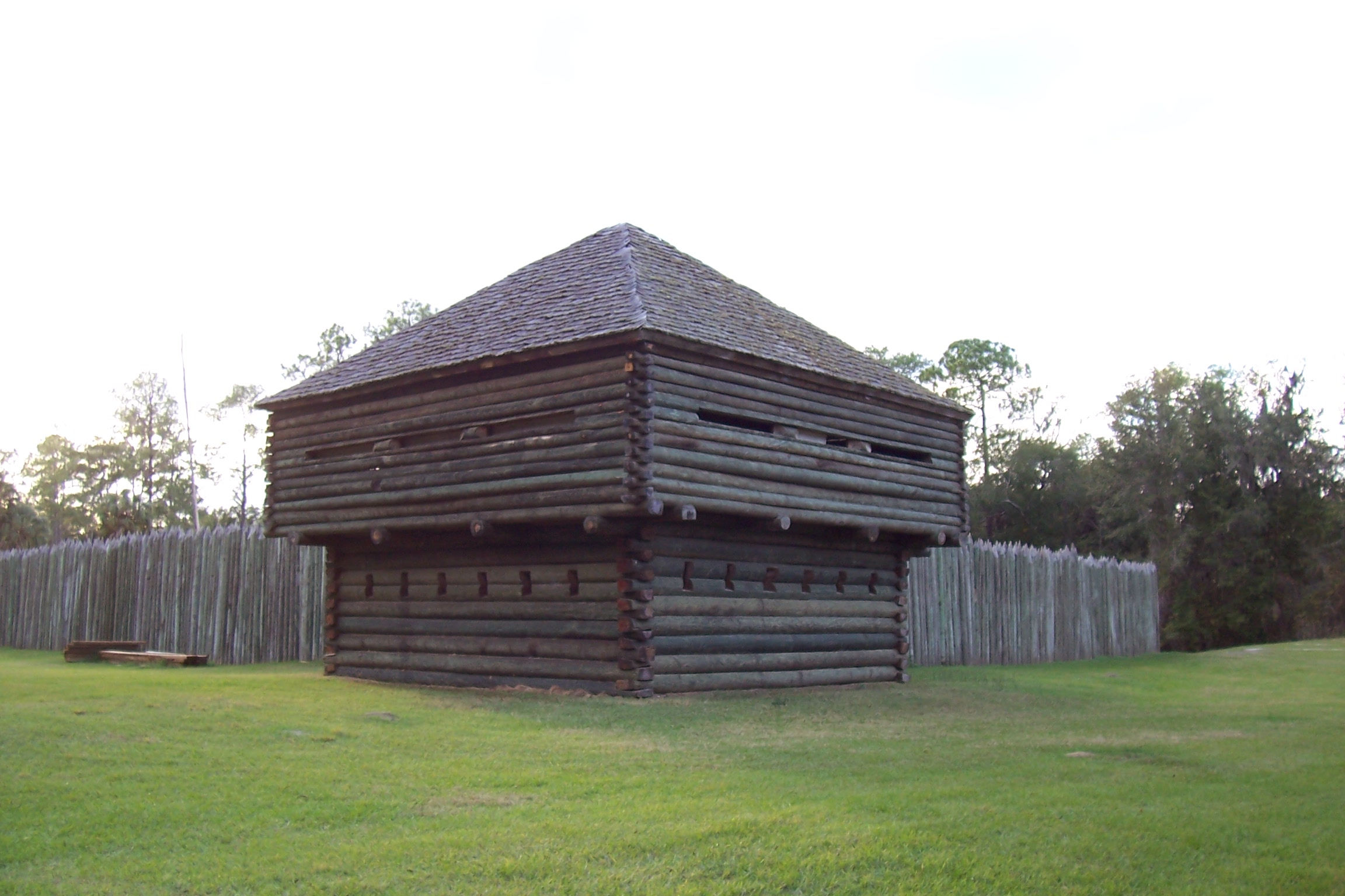 Fort Foster in Hillsborough River State Park, northeast Hillsborough County, Florida